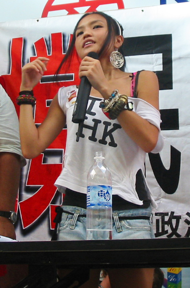 Christina Chan participates the July 1st march of 2008.